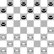 Position in opening Igra Petrova (russian checkers)